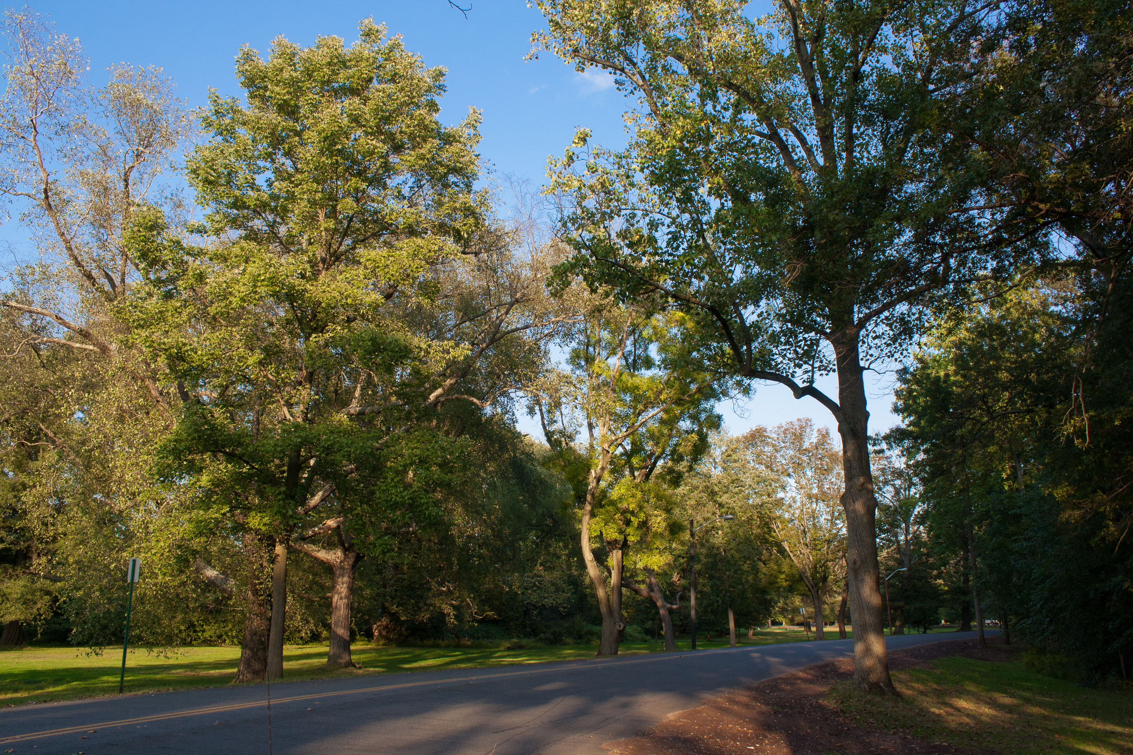 Green Brook Park, All parkland from Clinton Ave. to west of West End Ave., and the junction of Lawrence and Parkview Ave., Fisk and Townsend Pls. Plainfield